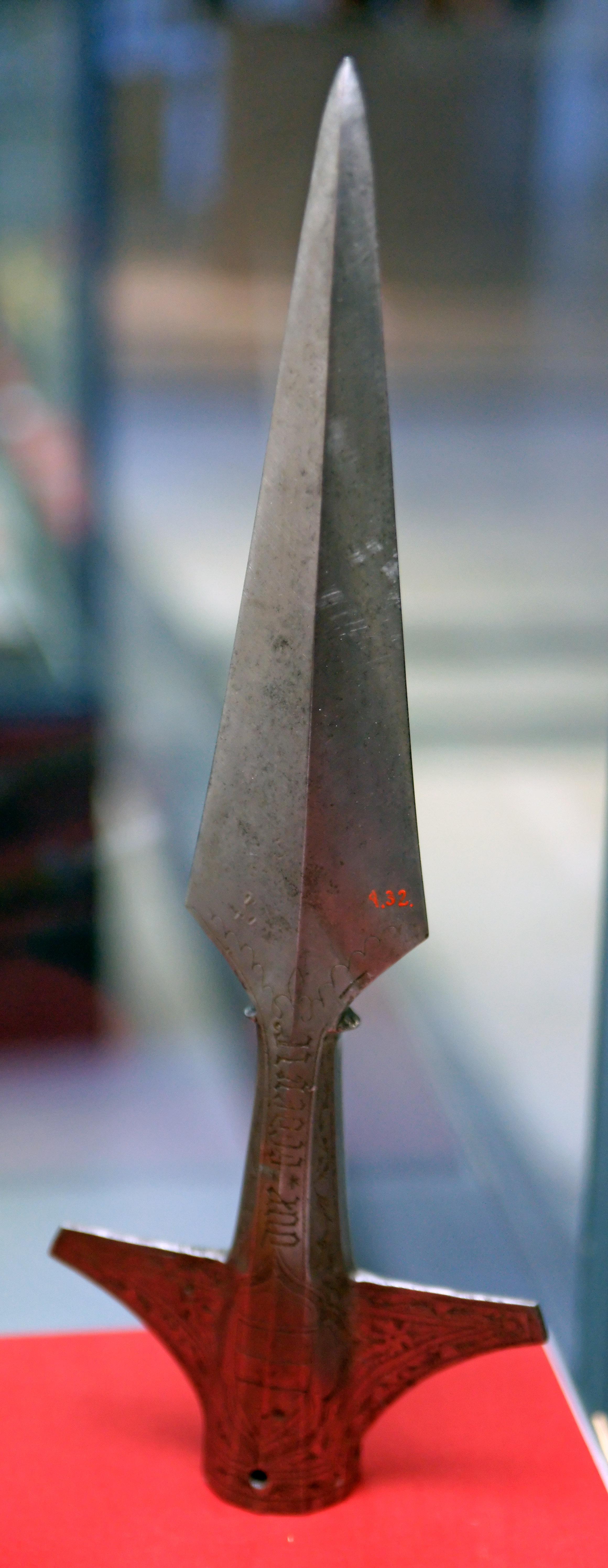 Boar spear head (Saufeder) attributed to Frederick IV, Duke of Further of Austria, also known as Frederick of the Empty Pockets (1382 - 1439).